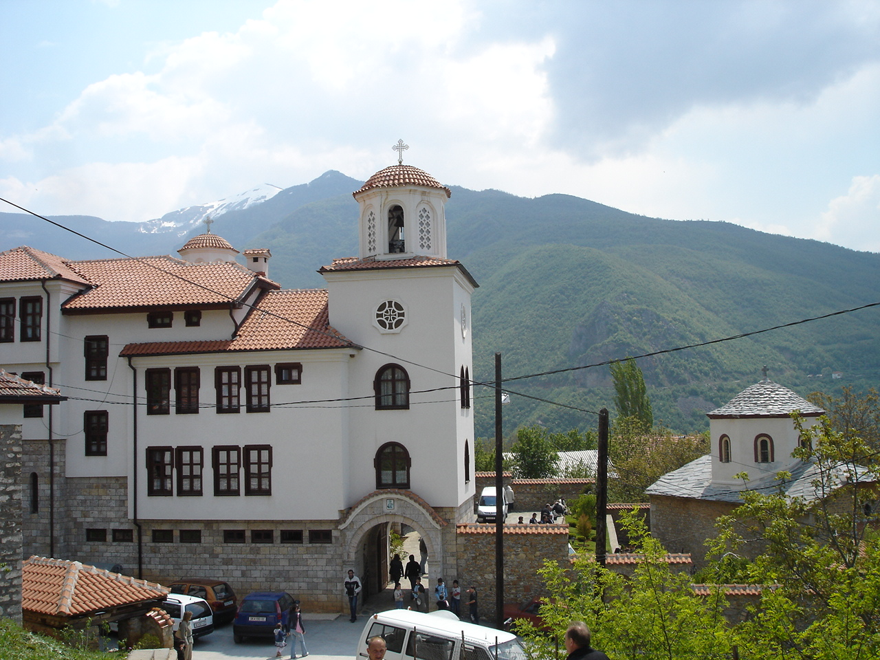 The monastery "Saint George Victory-bearer" in the village Raychitsa, Republic of Macedonia